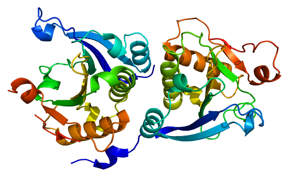 Structure of the EIF4E protein. Based on PyMOL rendering of PDB 1ej1.